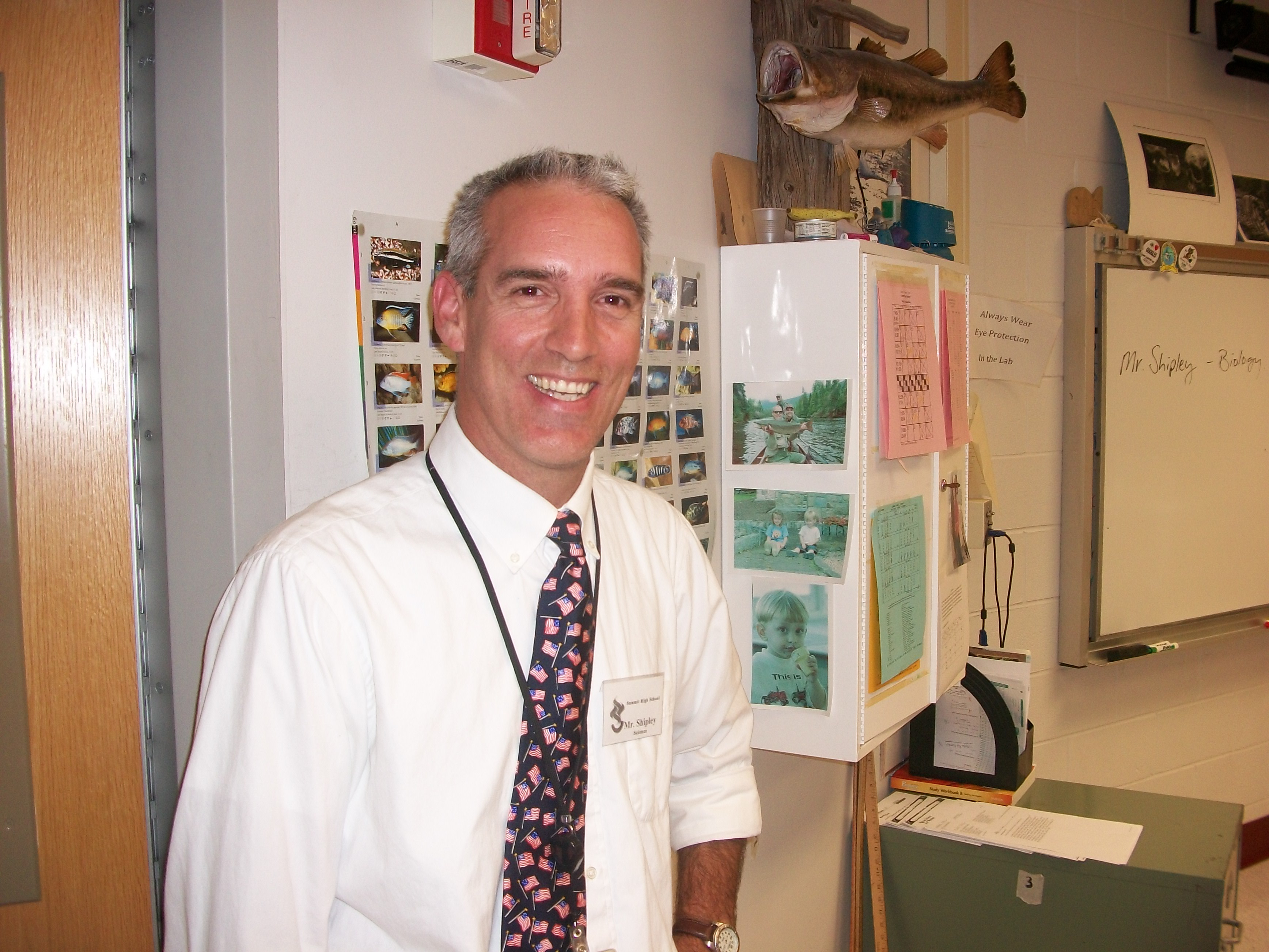 Summit High School (NJ, USA) teacher John Shipley, in 2010, teaches biology. His classroom mantra is: "it's us (Shipley and students) against biology, not me (Shipley) against them (students)". His advice to students: when reading, and you come across any question, answer it. Used with permission by Mr. Shipley. Questions? Email him at